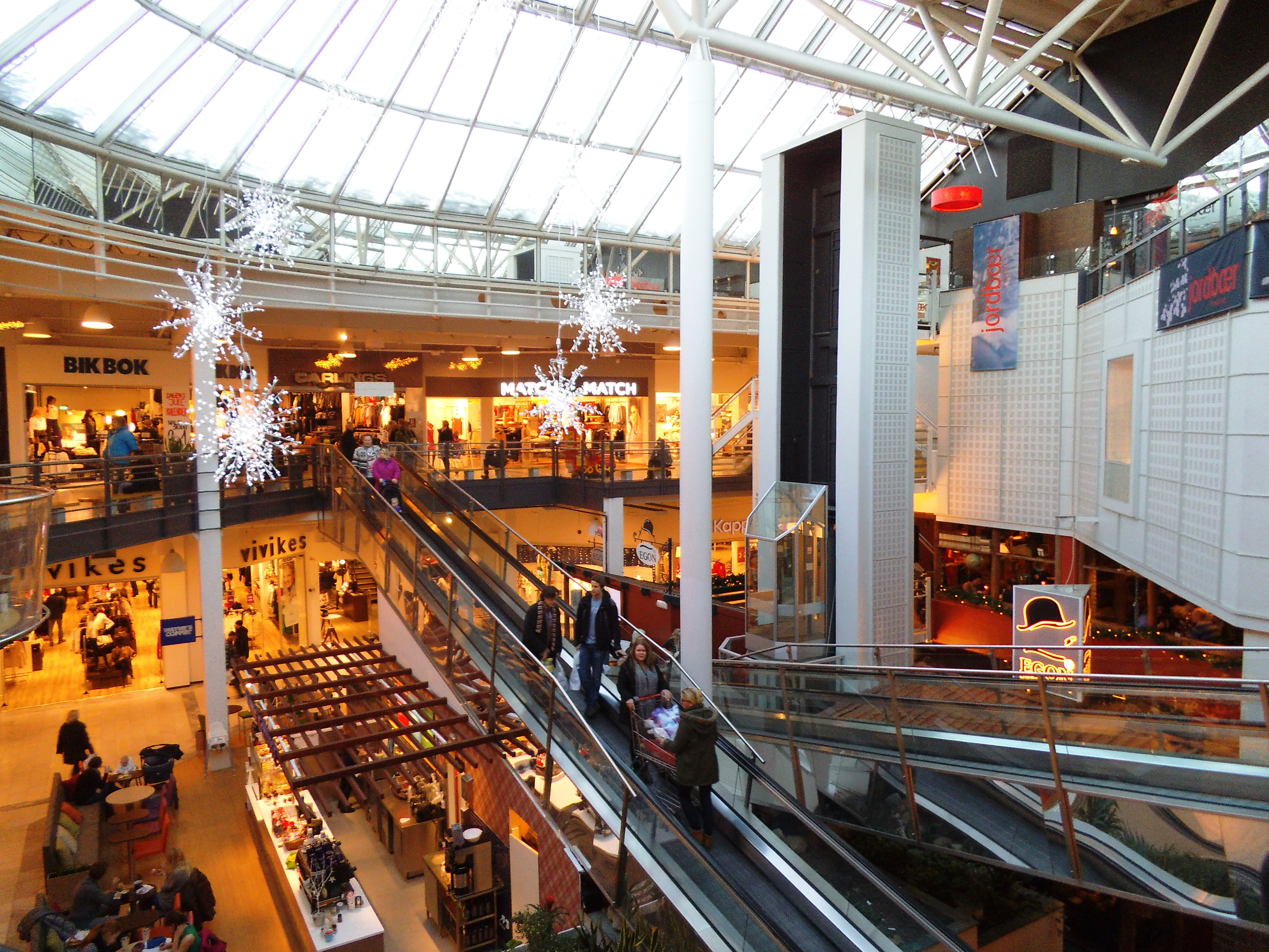 Interiors in City Syd, a chopping mall in Tiller, Trondheim. Second floor.